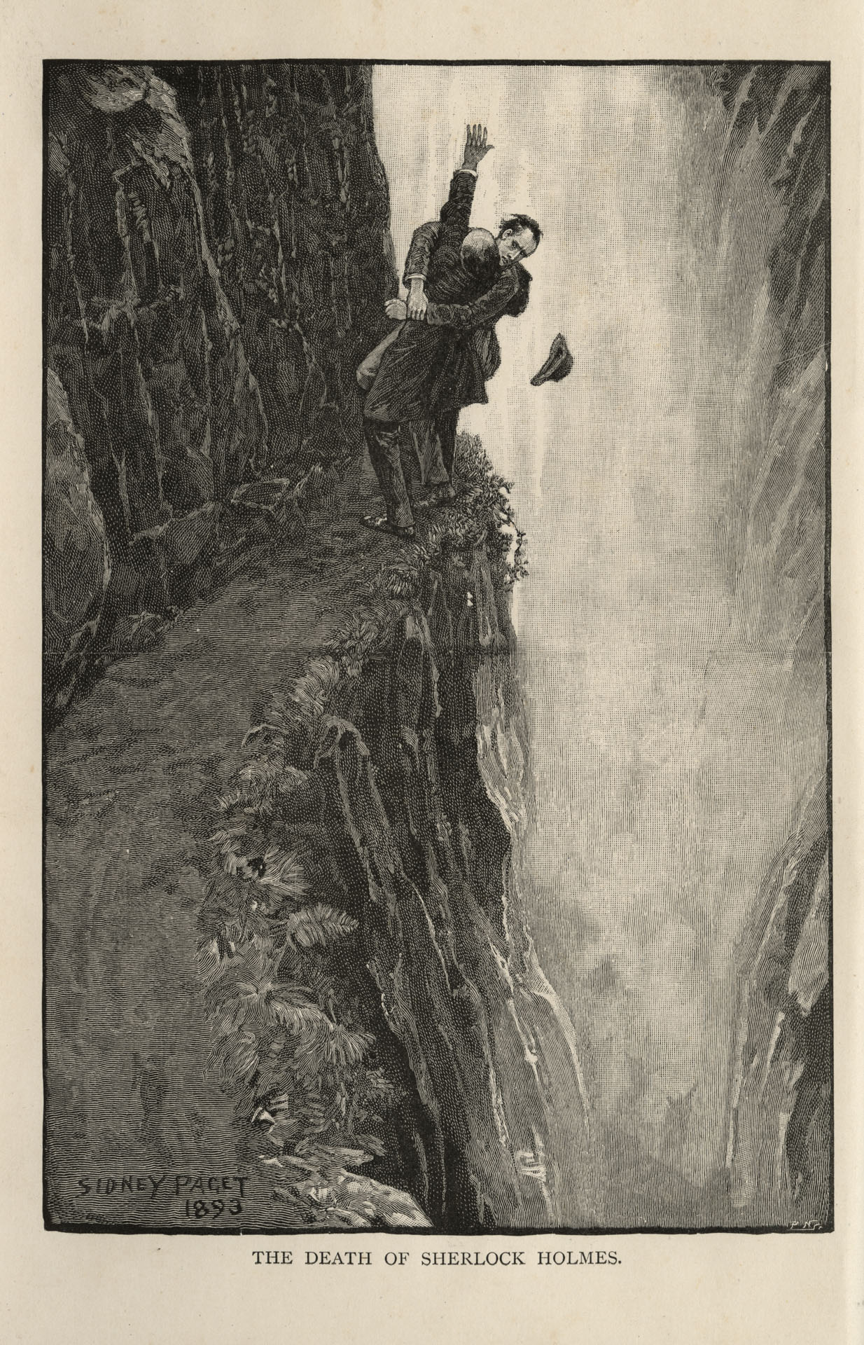 Sherlock Holmes and Professor Moriarty at the Reichenbach Falls. Ilustration by Sidney Paget to the Sherlock Holmes story The Final Problem by Sir Arthur Conan Doyle [1], which appeared in The Strand Magazine in December, 1893. Original caption was THE DEATH OF SHERLOCK HOLMES.